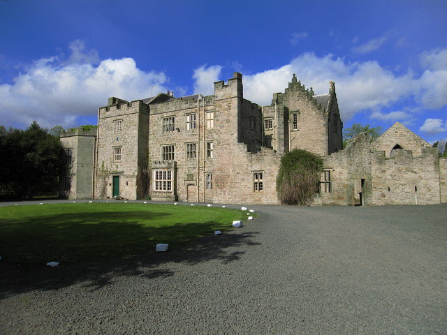 Rock Hall School. A former Jacobean manor house with two wings added by the Victorian architect John Dobson. The Hall stands in its own ground of 5 acres and has been in the Bosanquet family for nearly two centuries. It now is used as a school.